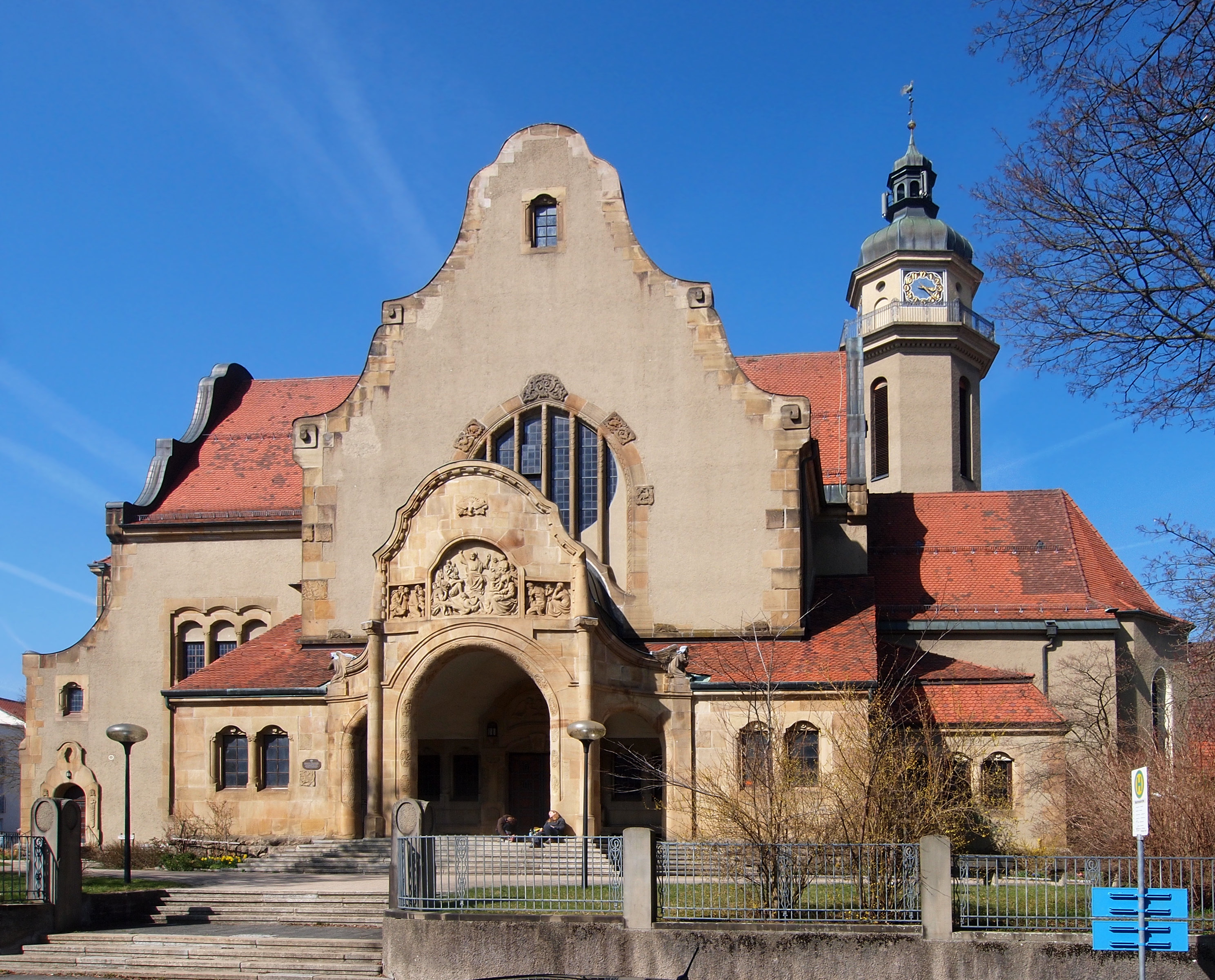 Martin's church in Albstadt-Ebingen, Germany